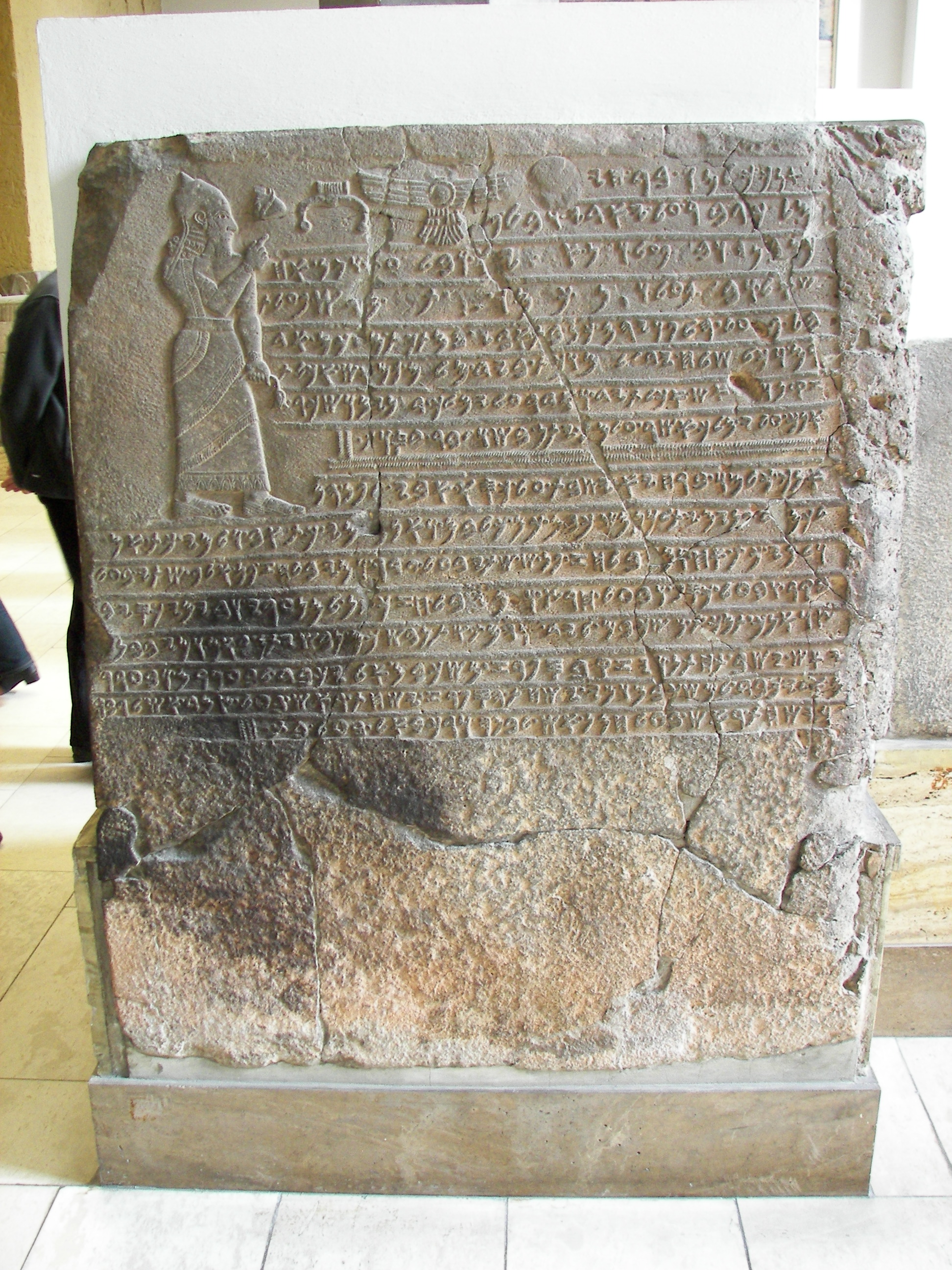 Memorial stone of Kilamuwa King of Sam'al (Zincirli), written in Phoenician.